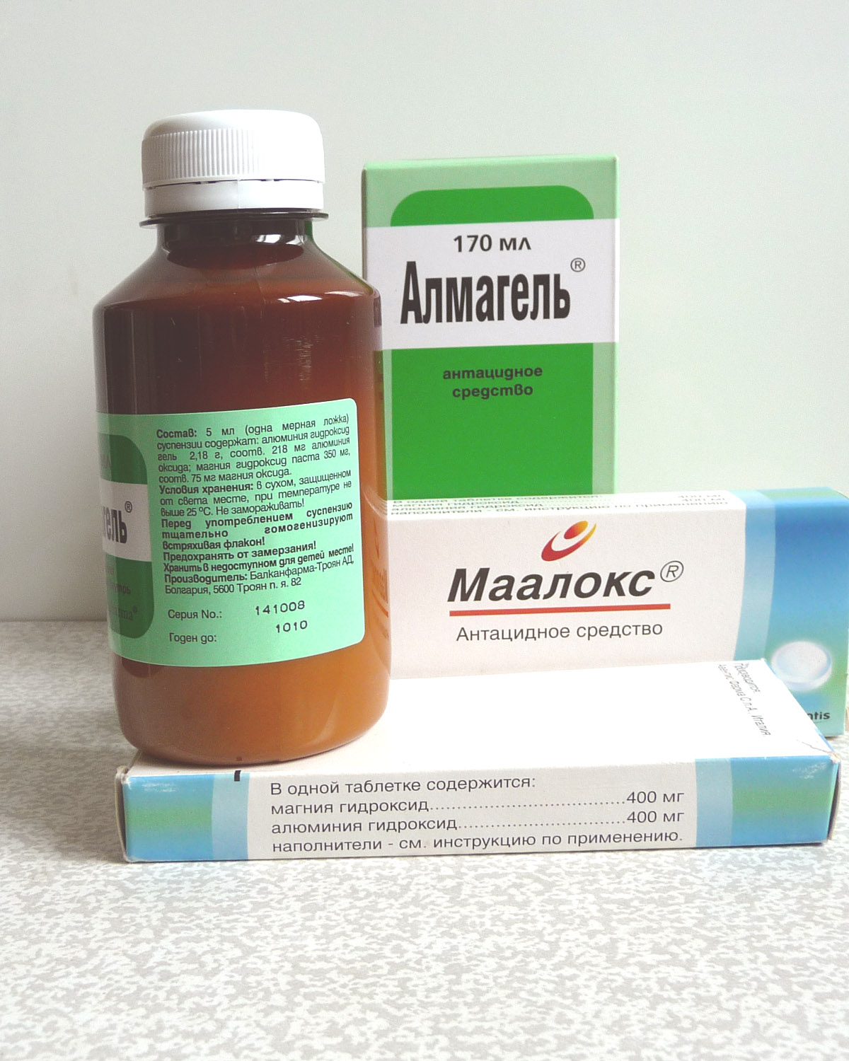 The comparison of chemical composition of two antacids: Almagel and Maalox.